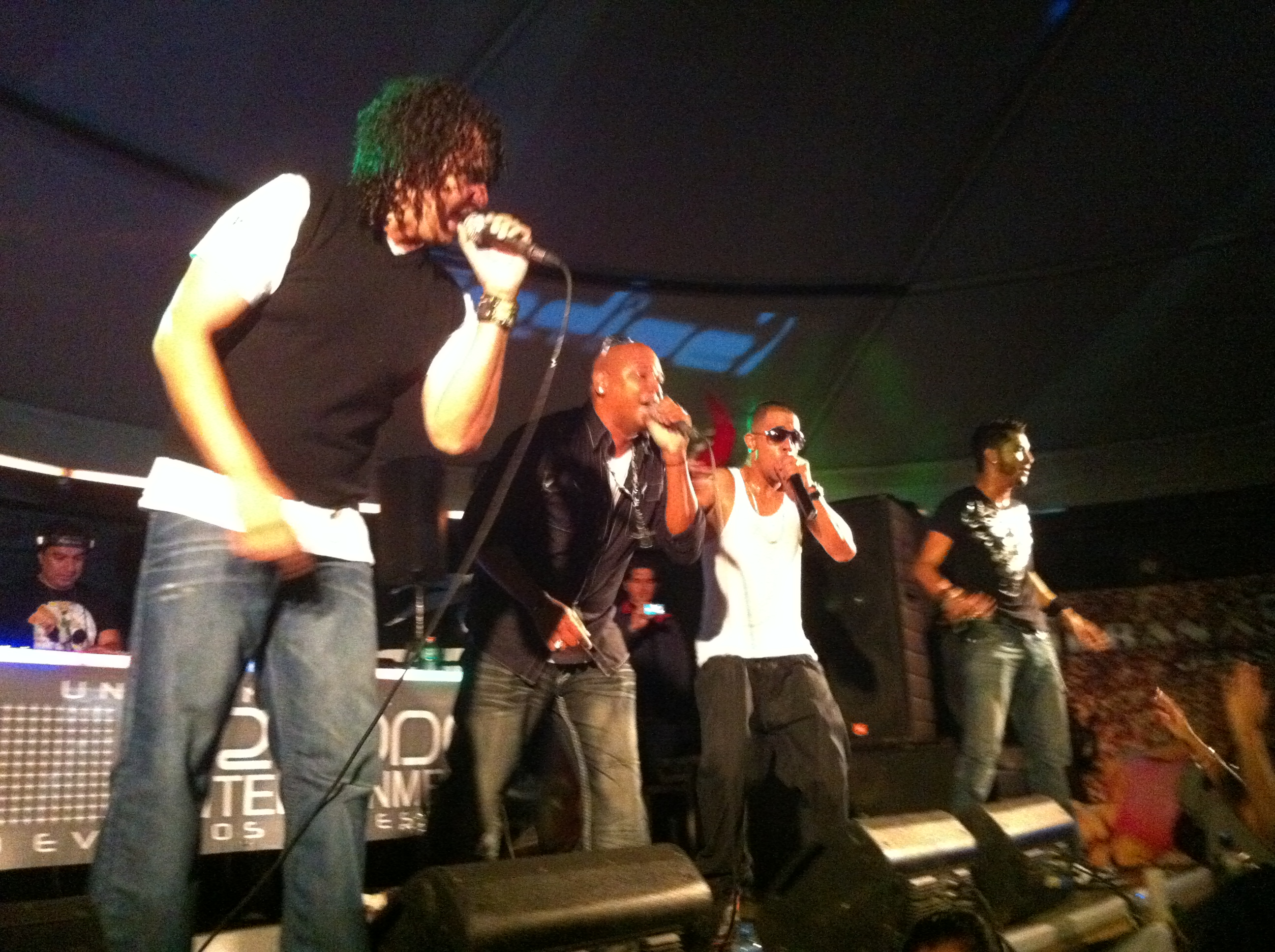 Proyecto Uno in Colombia